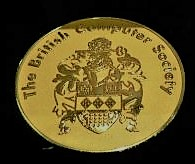 photo shot of the medal